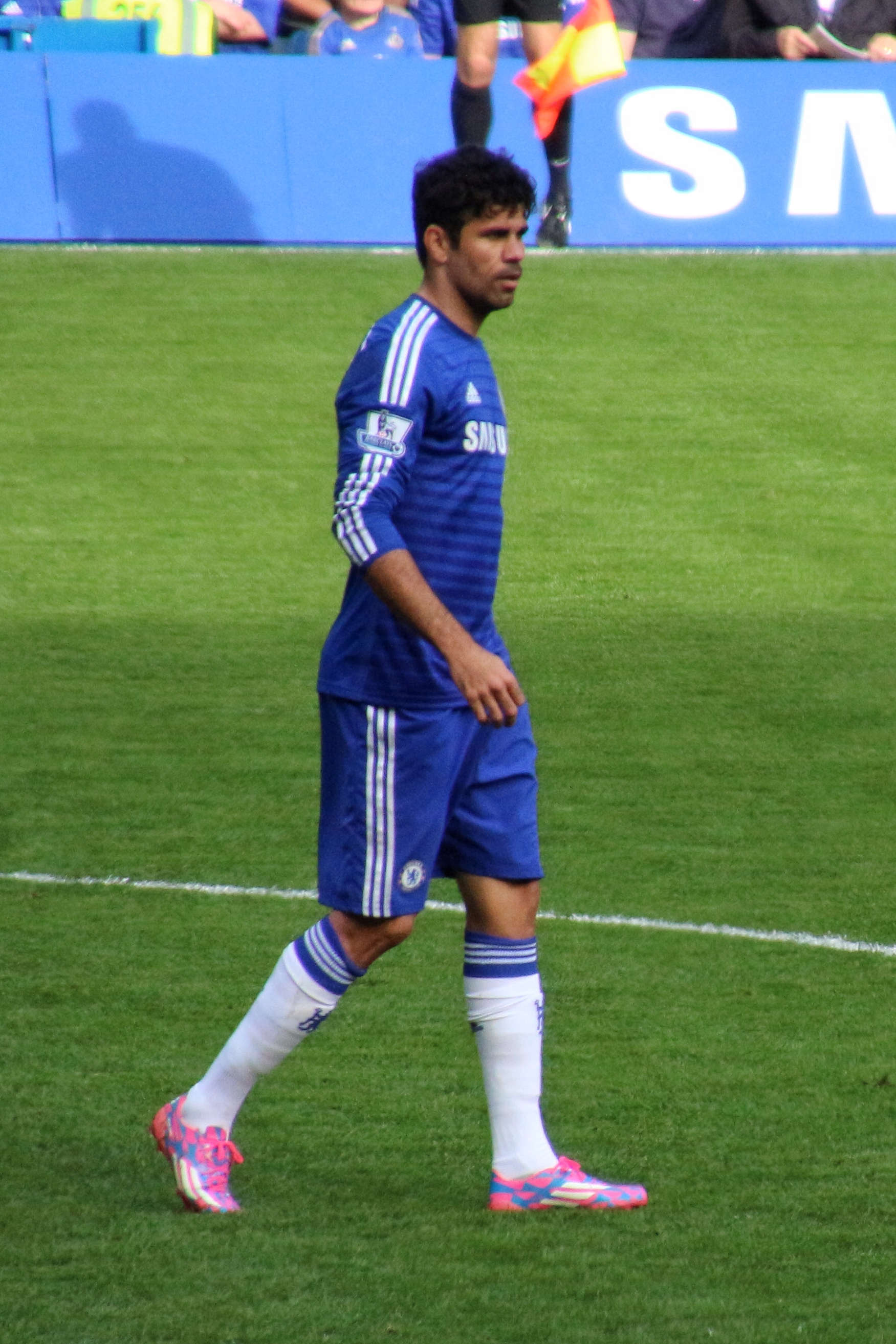 Premier League match between Chelsea and Arsenal at Stamford Bridge on 5 October 2014.